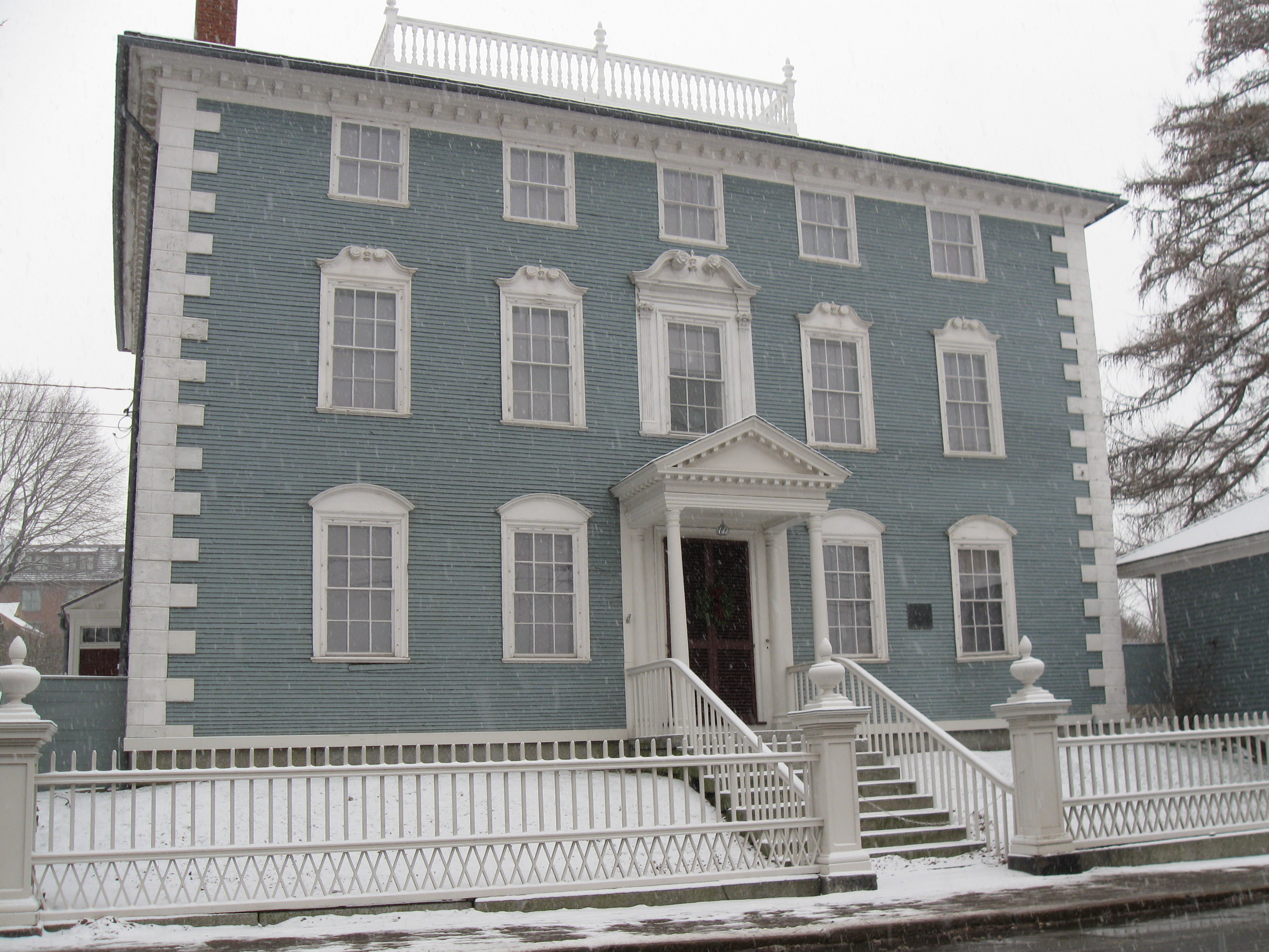 Moffatt-Ladd House, Portsmouth, New Hampshire, December 31, 2009. Photo by Ken Gallager.